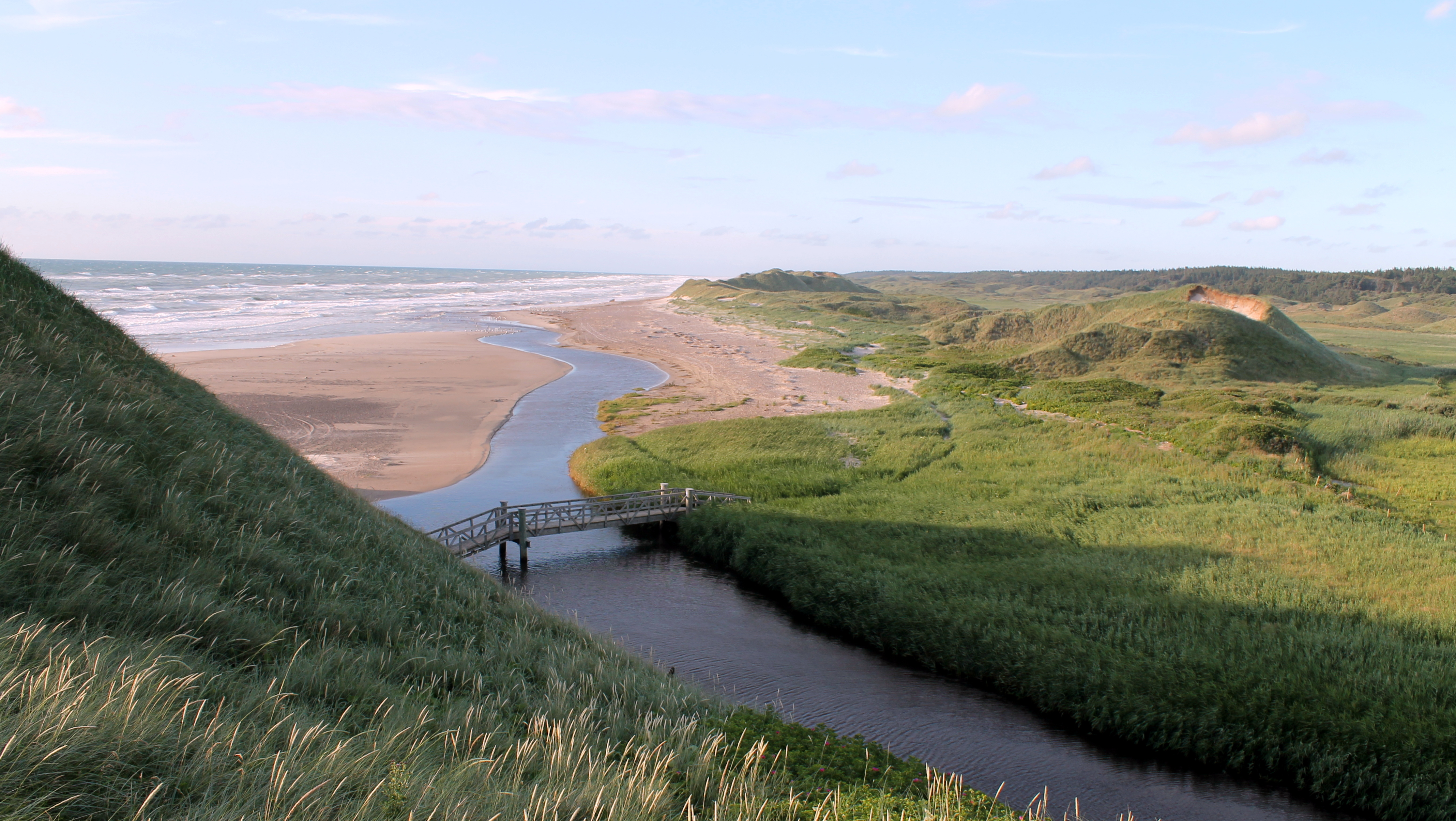 Liver Å river in Denmark, the mouth into Skagerrak (protected area)